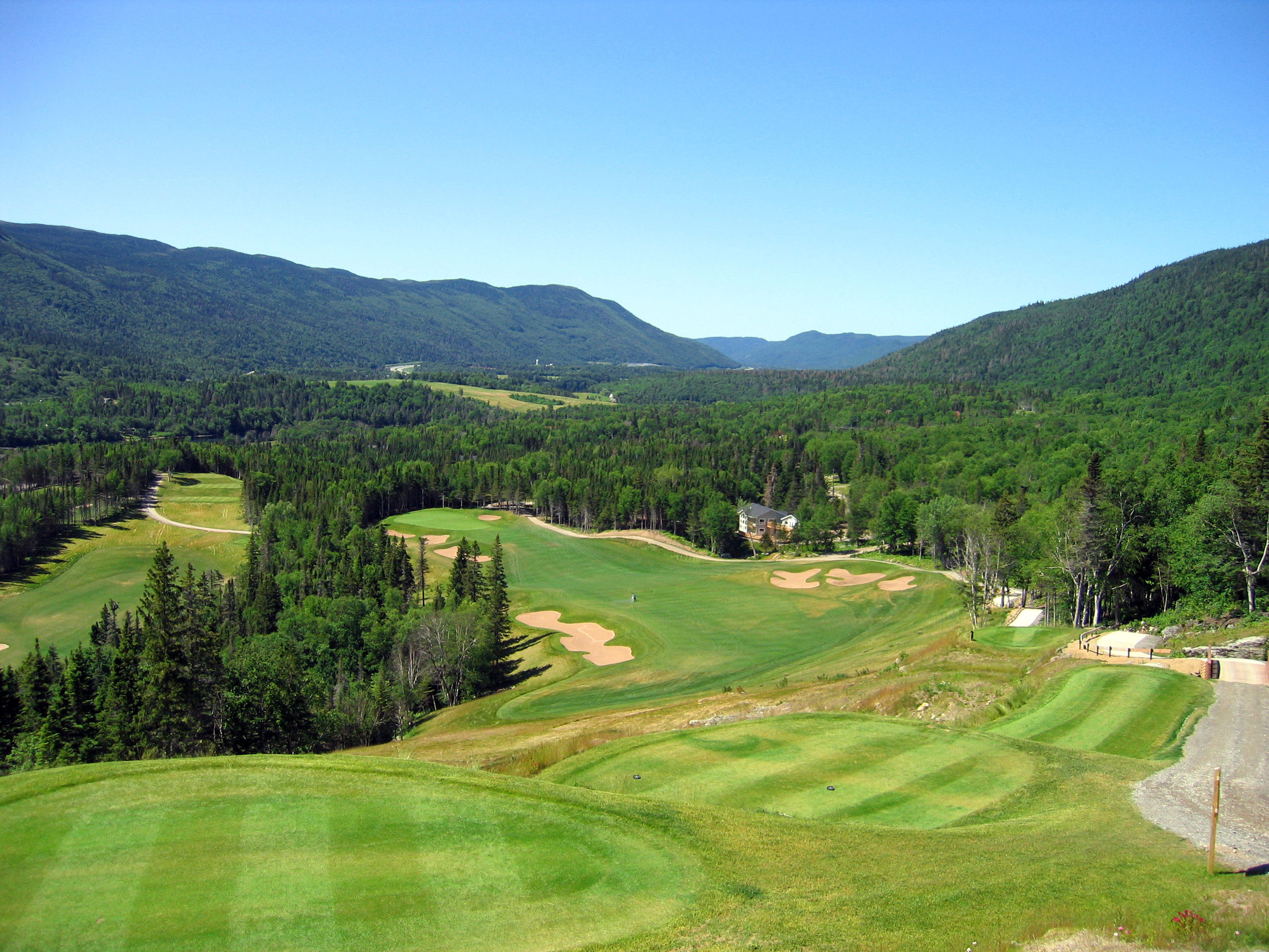 The River course, Humber Valley golf club, Newfoundland